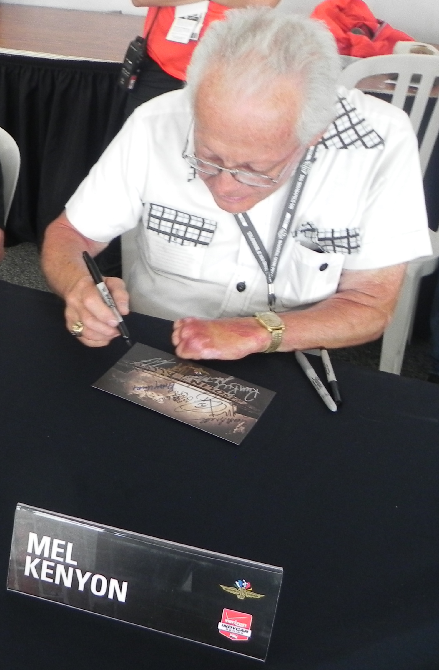 Indy500 driver Mel Kenyon at the 2014 Indianapolis 500.